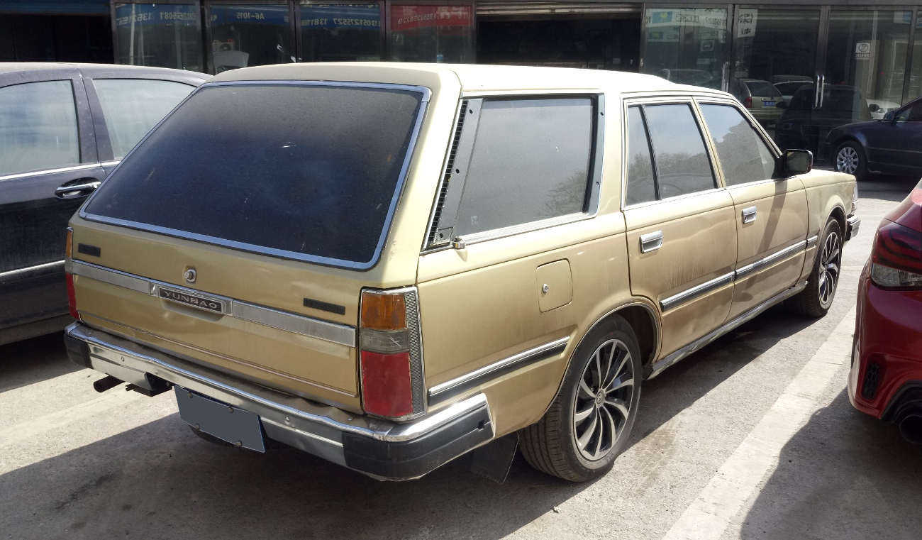 Yunbao YB6470 photographed in Beijing, China.